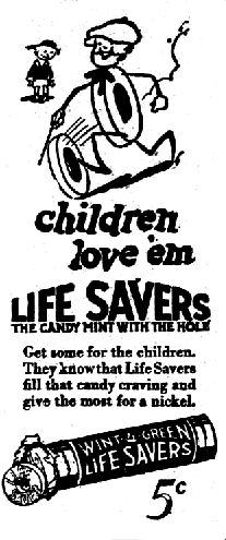 Newspaper ad for Wintergreen Life Savers.